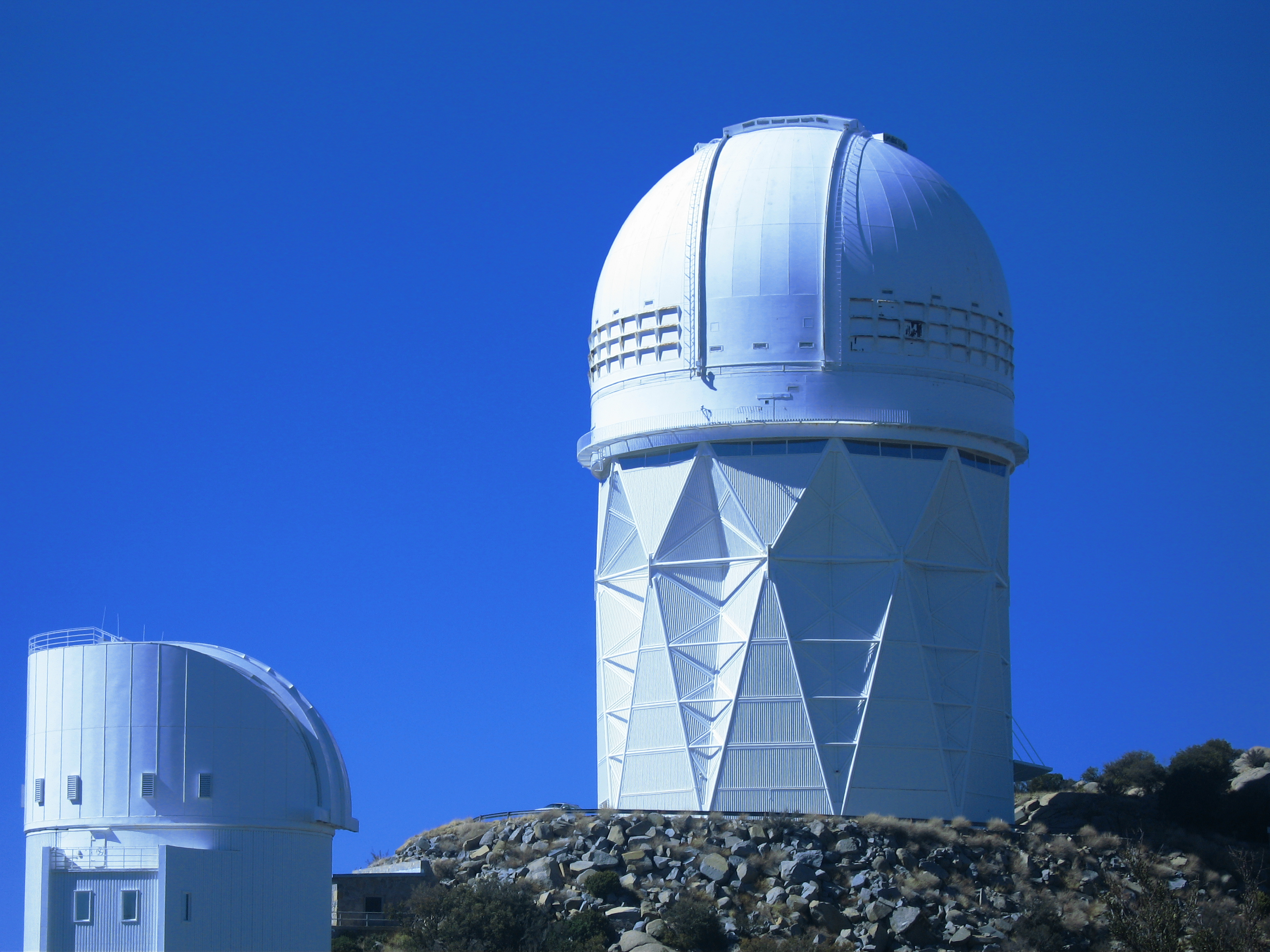 Kitt Peak National Observatory telescopes; right: Mayall 4-m telescope; left: Bok 2.3-m (90 in) telescope